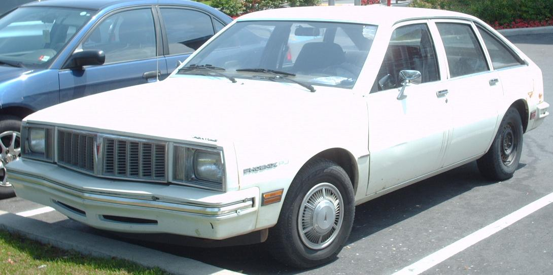 1980-1984 Pontiac Phoenix photographed in Montreal, Quebec, Canada.